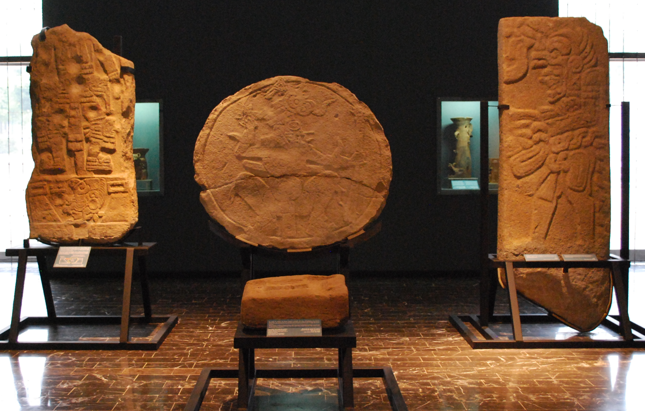 Ballcourt pieces from Tenam Puente at the Regional Museum in Tuxtla Gutierrez, Chiapas, Mexico